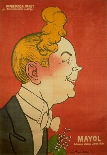 Poster advertising Félix Mayol as the foremost comic singer in Paris